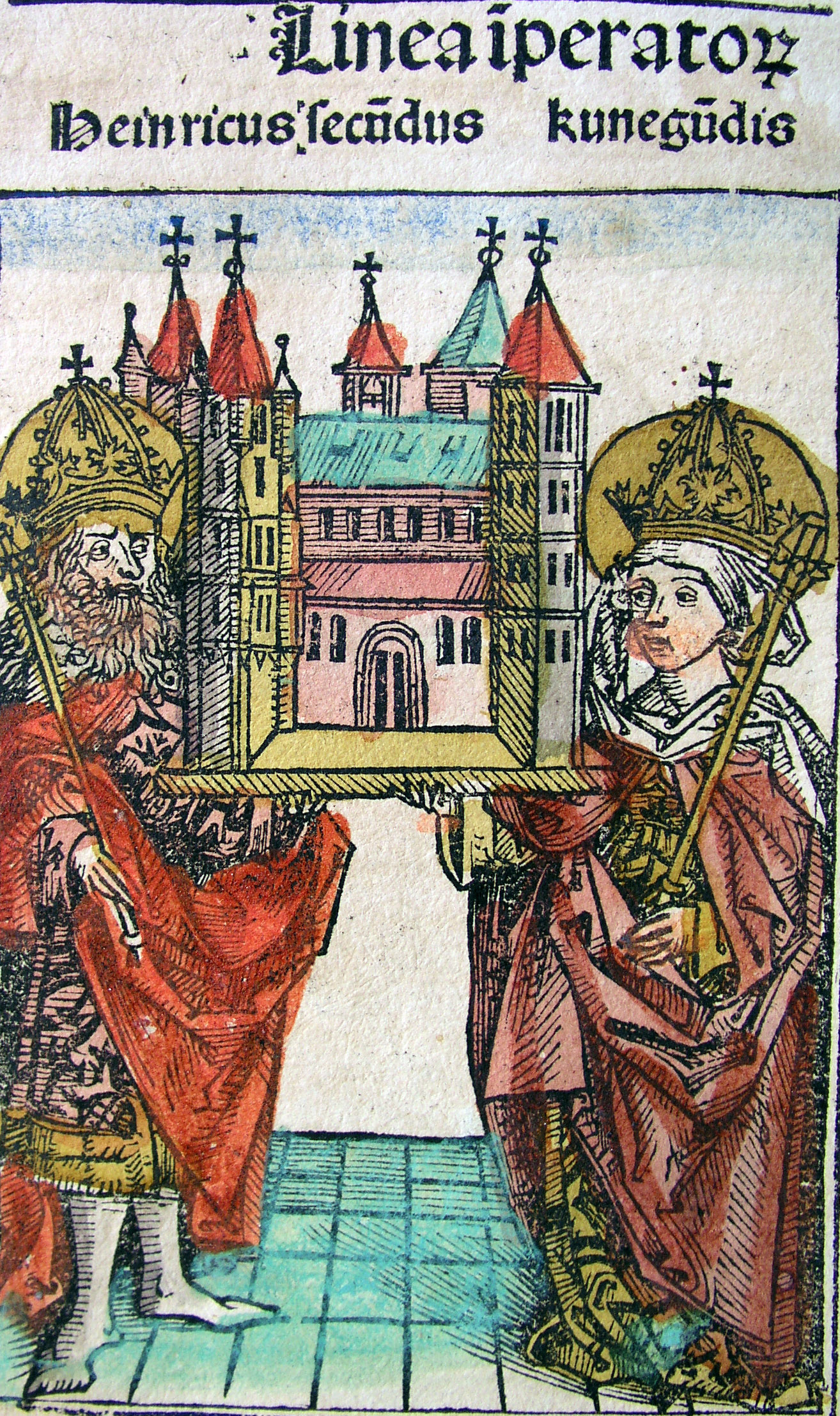 Henry II and Cunegundis. Illustrations from the Nuremberg Chronicle, by Hartmann Schedel (1440-1514).